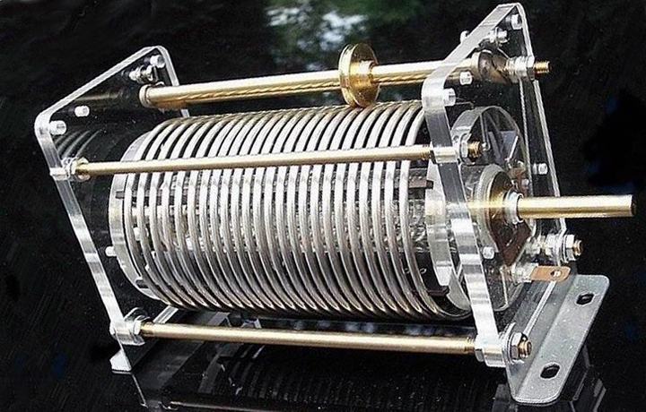 An electronic component called a roller inductor, a type of air-core RF inductor that can be adjusted continuously. It consists of a coil of wire that can be rotated with an adjustment knob, with an electrical contact in the form of a grooved wheel that rides on the wire turns. Rotating the inductor causes the contact wheel to move up or down the length of the coil, allowing more or fewer turns of the coil into the circuit, thus increasing or decreasing the inductance. Roller inductors are used mainly in tuned circuits in electronic oscillators, such as radio transmitters to tune the transmitter to different frequencies.